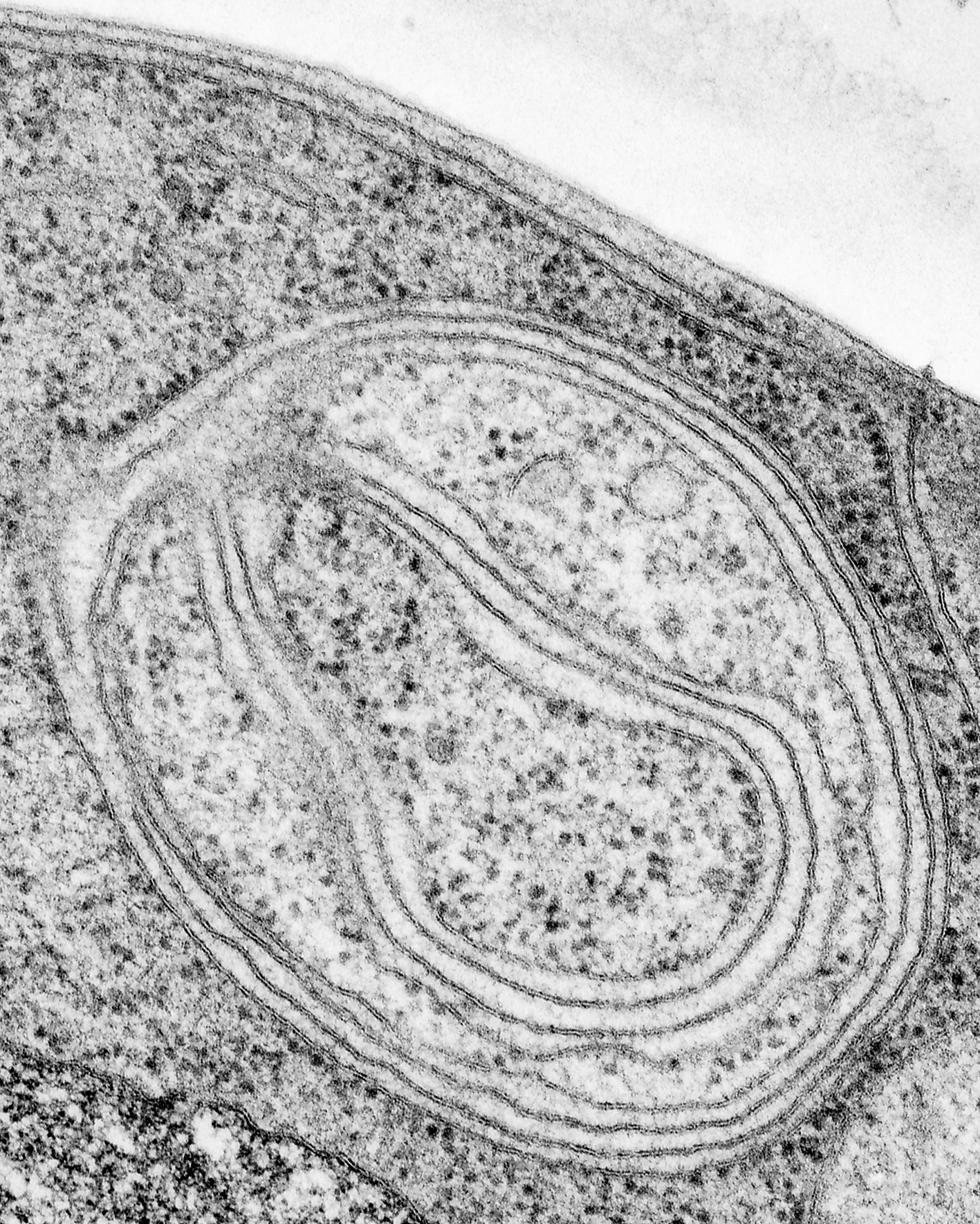 ER-containing autophagosome (TEM)